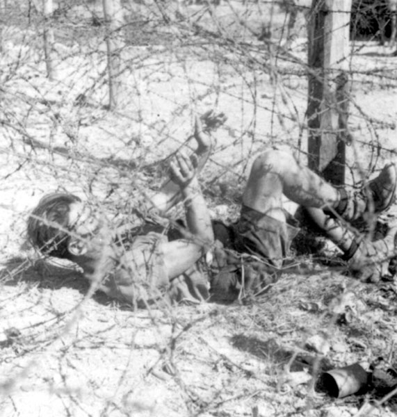 Combat training of the Shurot Ha\'Maginim,Underground organization at the camps